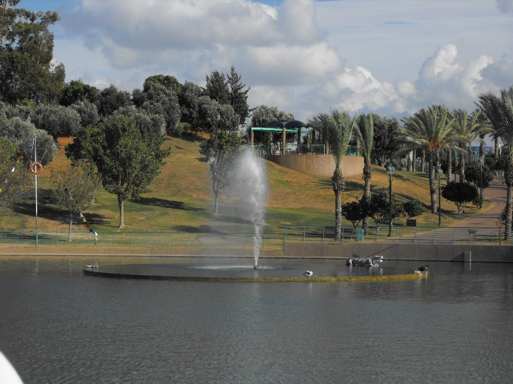 Raanana Park, Tourism in Israel